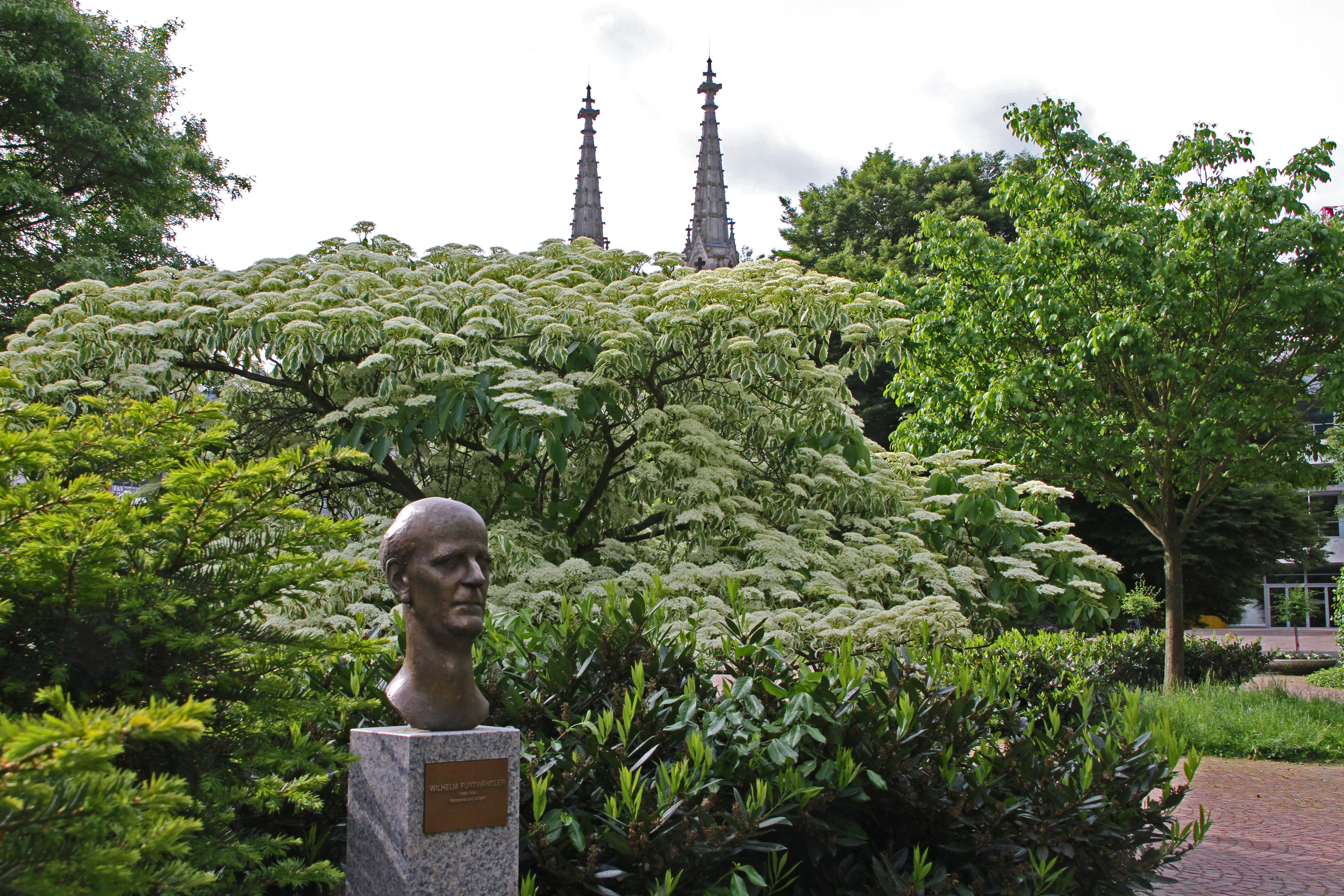 Bust of the conductor Wilhelm Furtwängler (1886-1954) at the Augustaplatz in Baden-Baden, built in 2009.